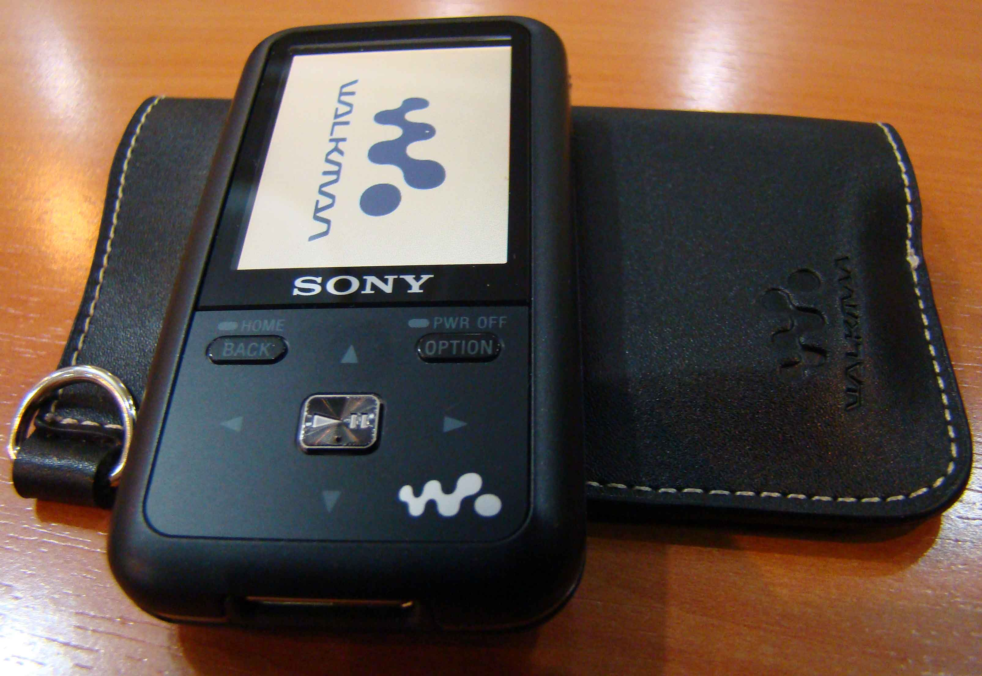 Sony MP4 Walkman , NWZ-S618F